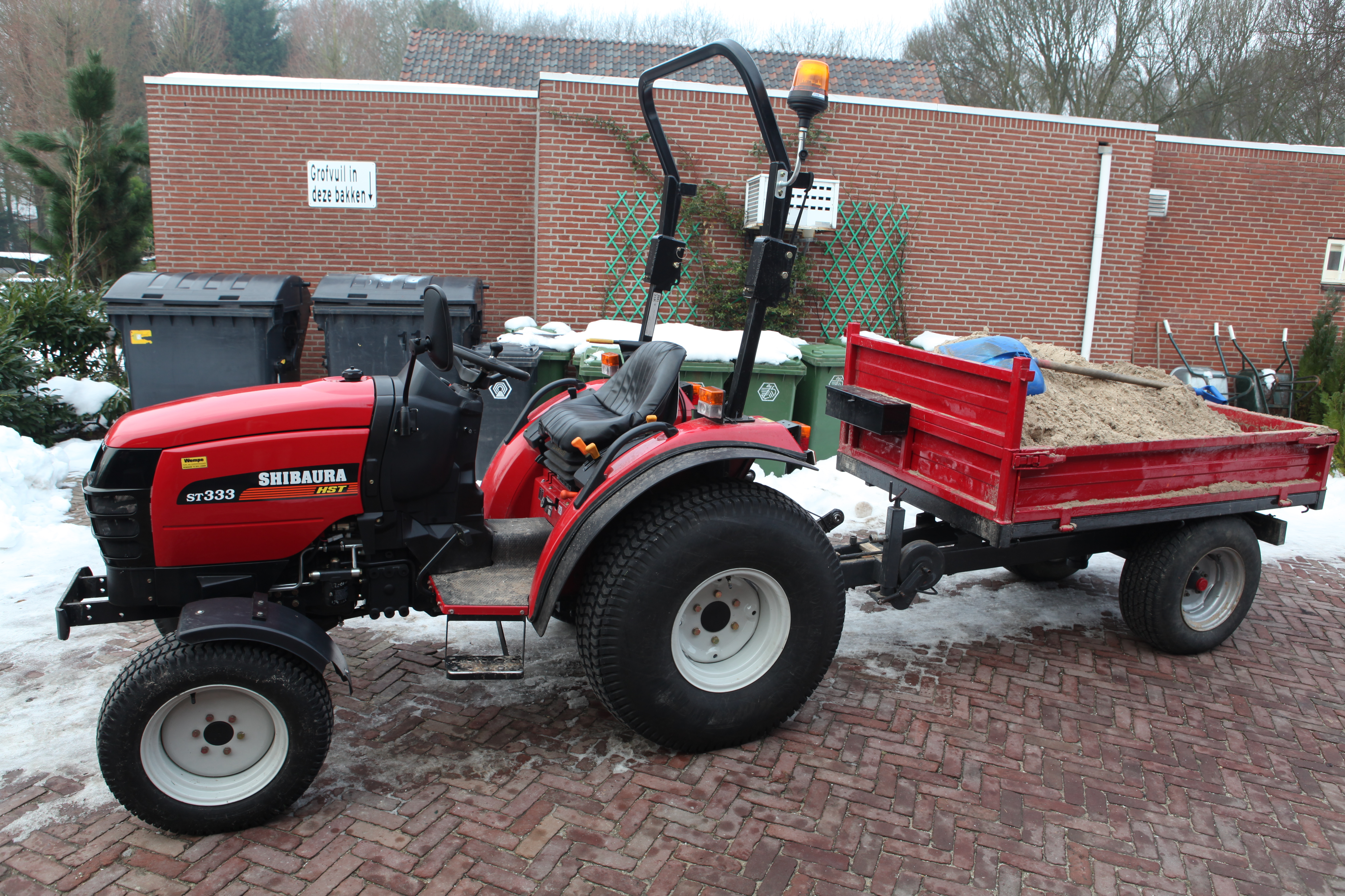 Shibaura ST 333 HST compact tractor with trailer